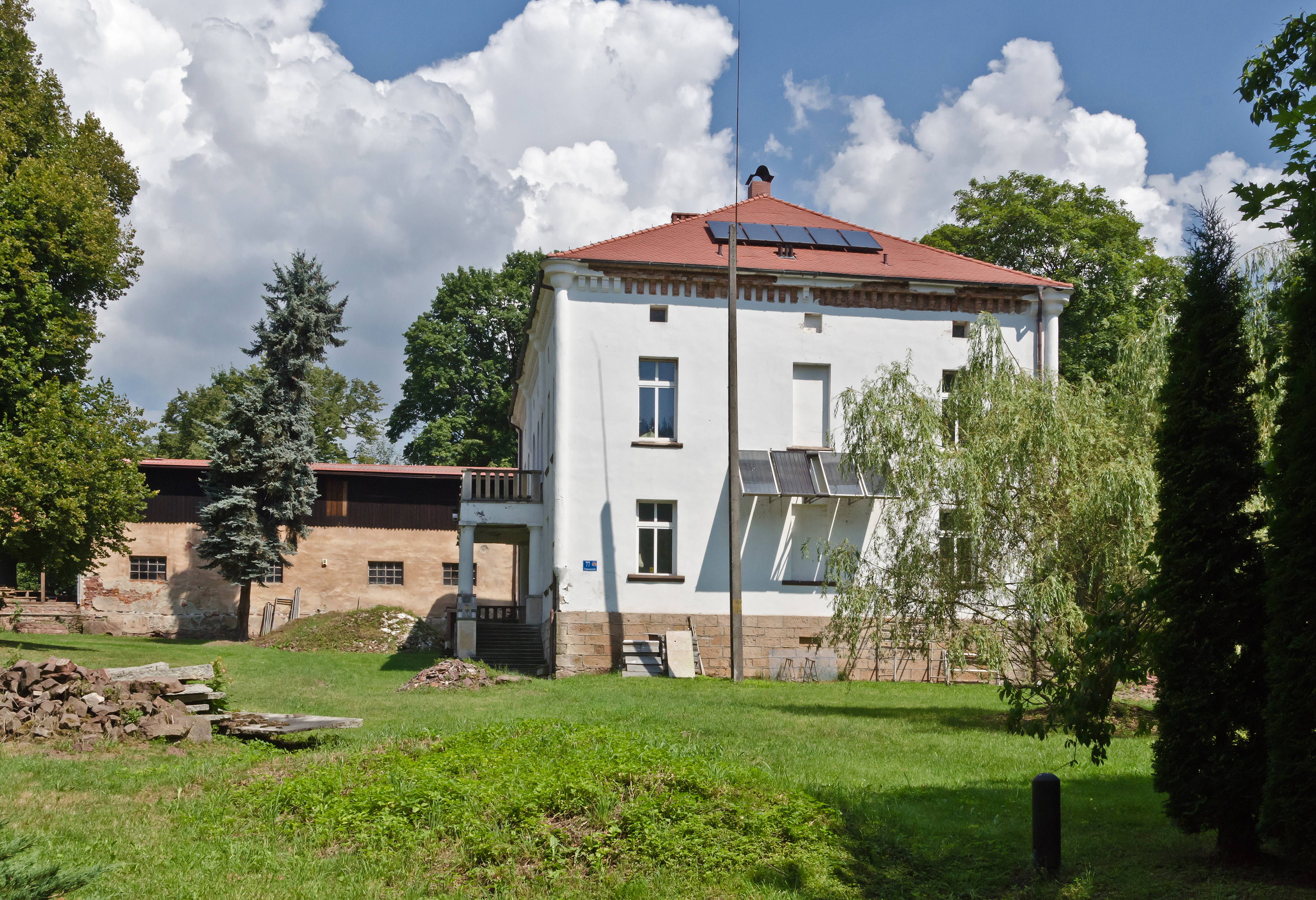 Manor in Tłumaczów